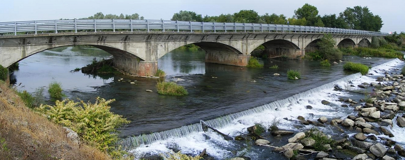 Bridge on the Elvo between Collobiano and Quinto Vercellese (VC, Italy)